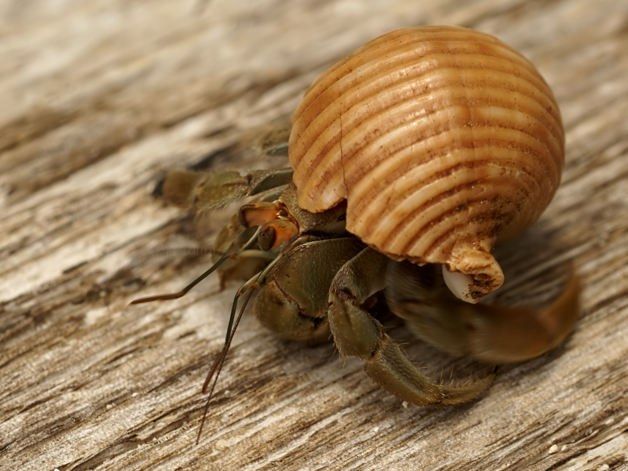 Hermit crab at Cabo Blanca, Nicoya Peninsula, Costa Rica.